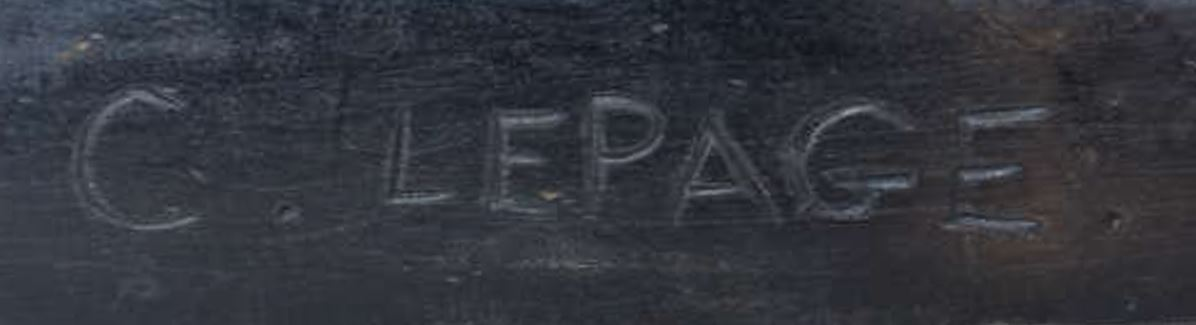 Céline Lepage's signature